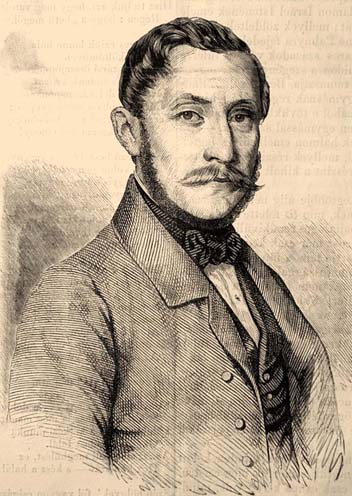 Zsigmond Kemény